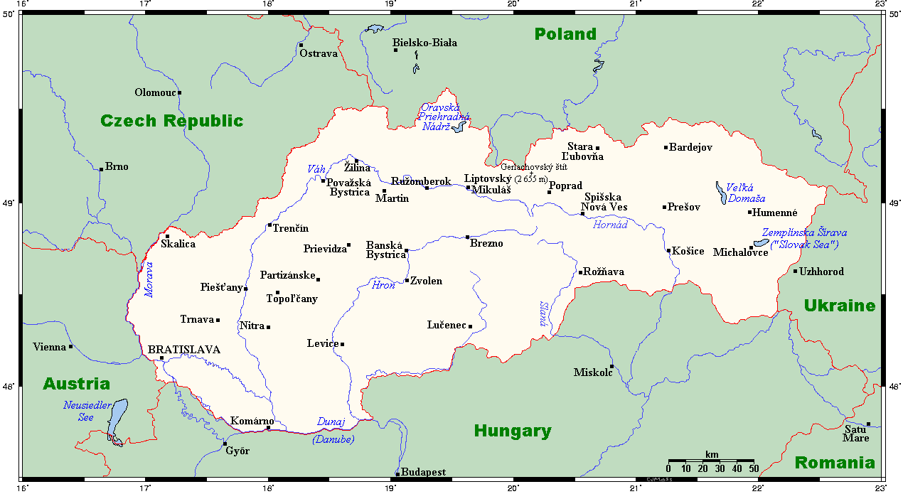 A map showing Slovakia's cities and main towns, rivers and lakes, along with nearby areas. This map's source is here, with the uploader's modifications, and the GMT homepage says that the tools are released under the GNU General Public License.